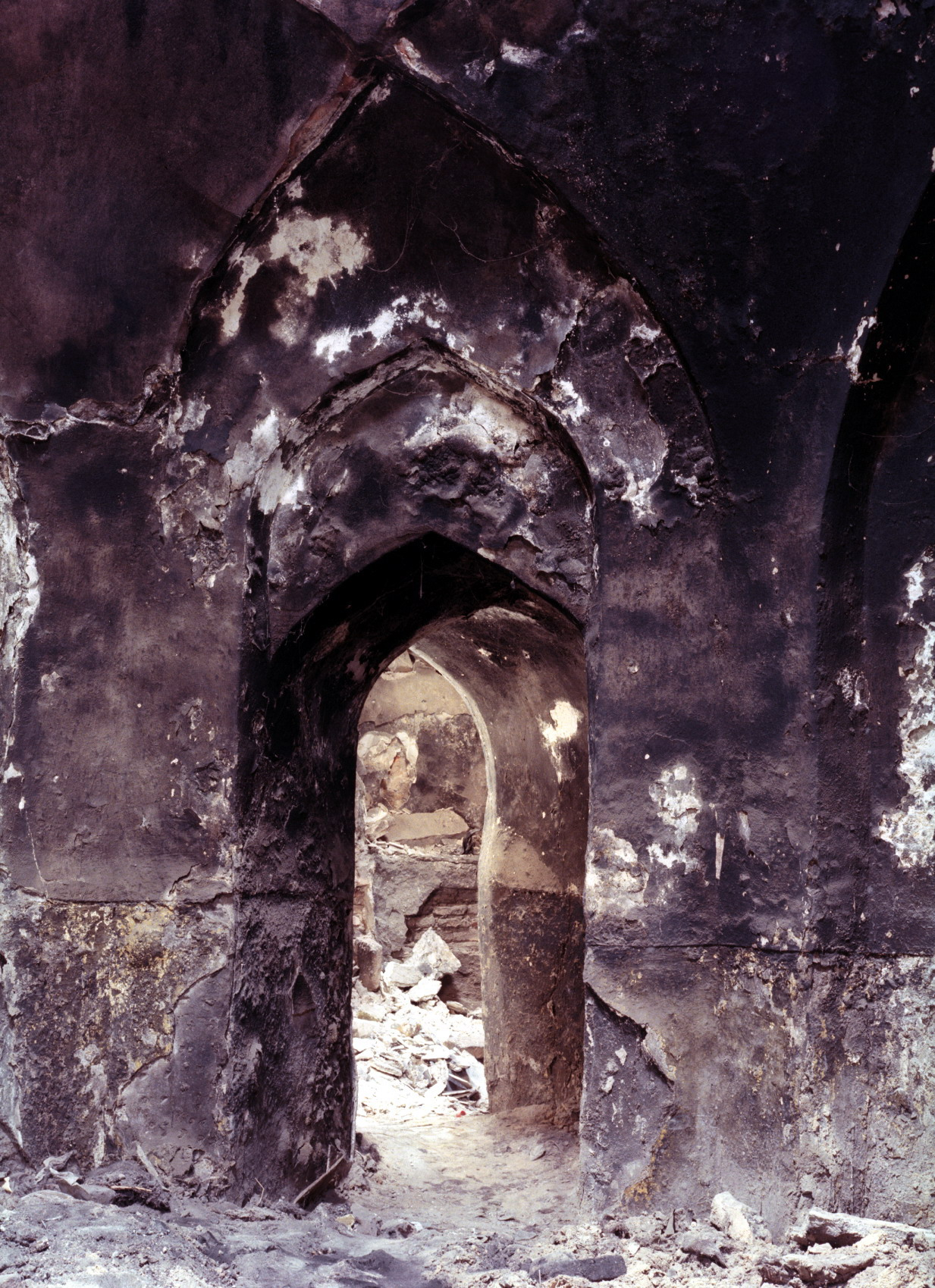 Haj Ali baba bathroom in Tabriz.